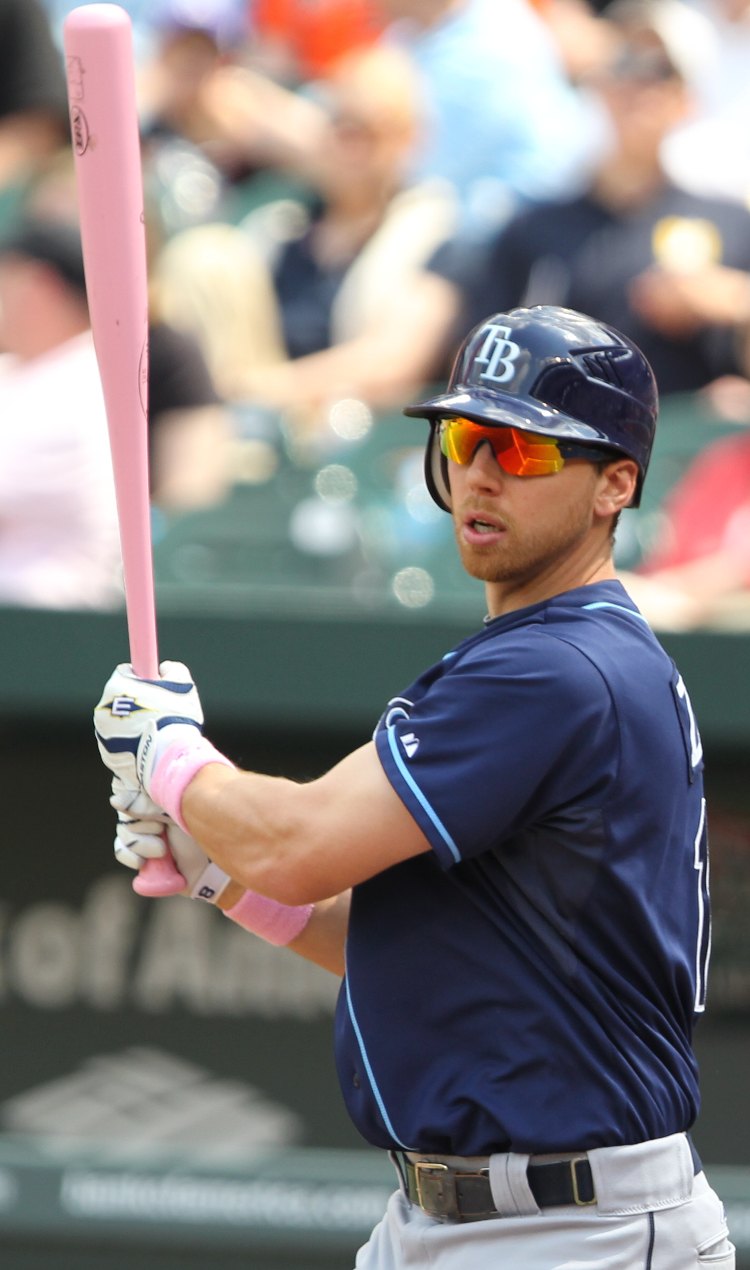 Ben Zobrist of the Tampa Bay Rays in 2011.